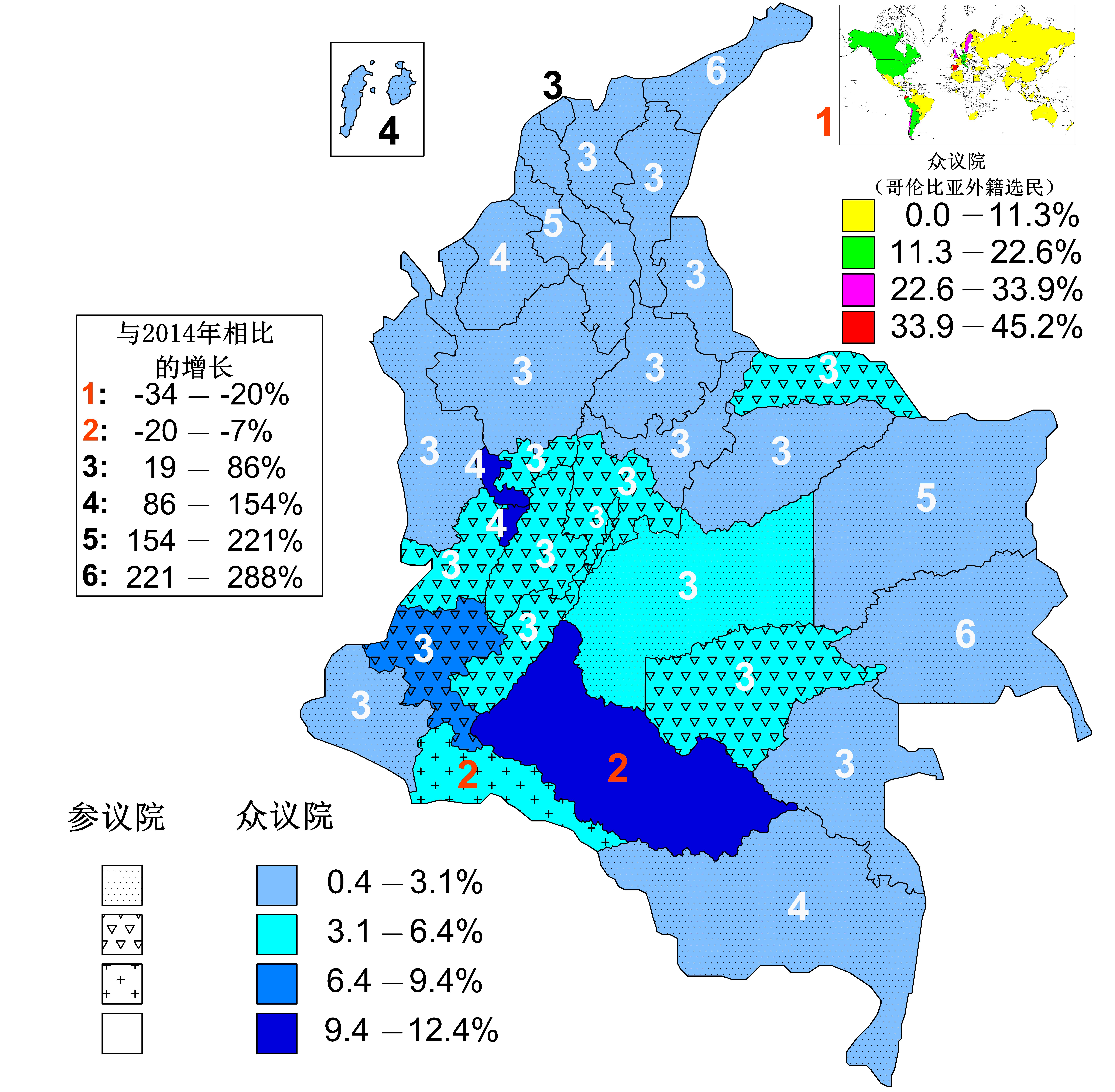 This map summarizes the preliminary results obtained by the MIRA Party in the 2018 parliamentary elections in Colombia. This is the map version for Wikipedia in Chinese. This file replaces MIRA党获得的2018年议会选举结果.png.